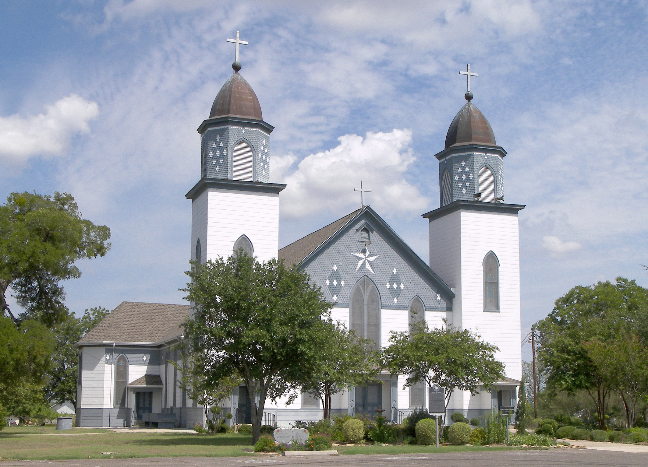 The Church of the Visitation of the Blessed Virgin in Westphalia, Texas, United States. The structure was listed on the National Register of Historic Places on May 15, 1996 as part of the Westphalia Rural Historic District.